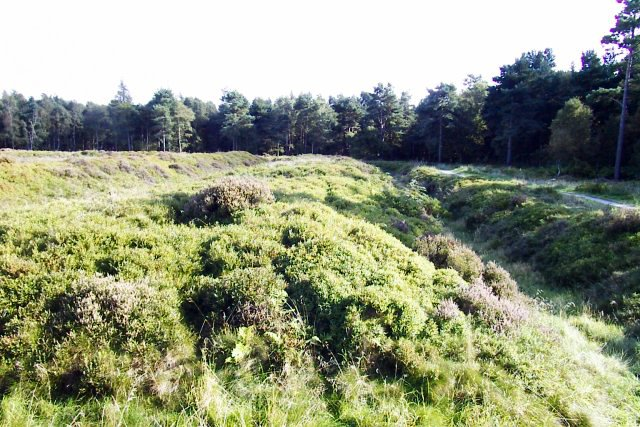 Cawthorn Roman Camps. Cawthorn Roman Camps showing some of the main earth works